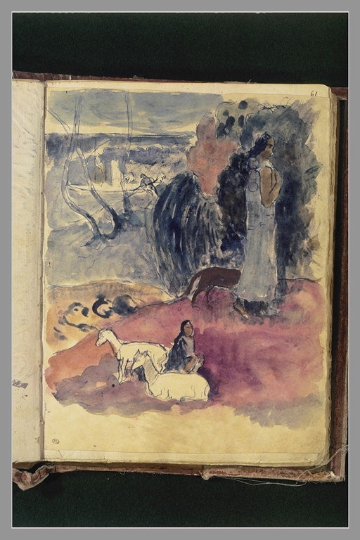 original GAUGUIN Paul française